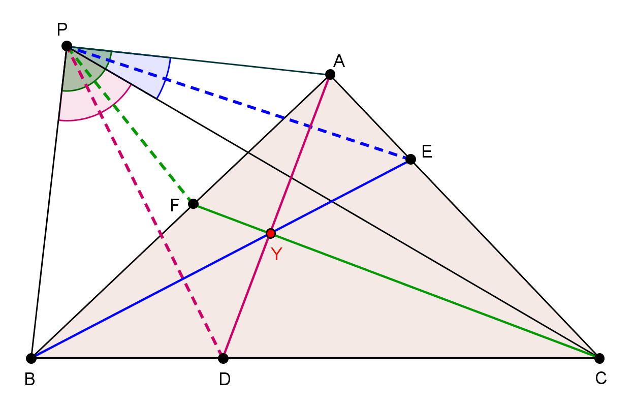 Diagram showing generalization of Yff center of congruence.